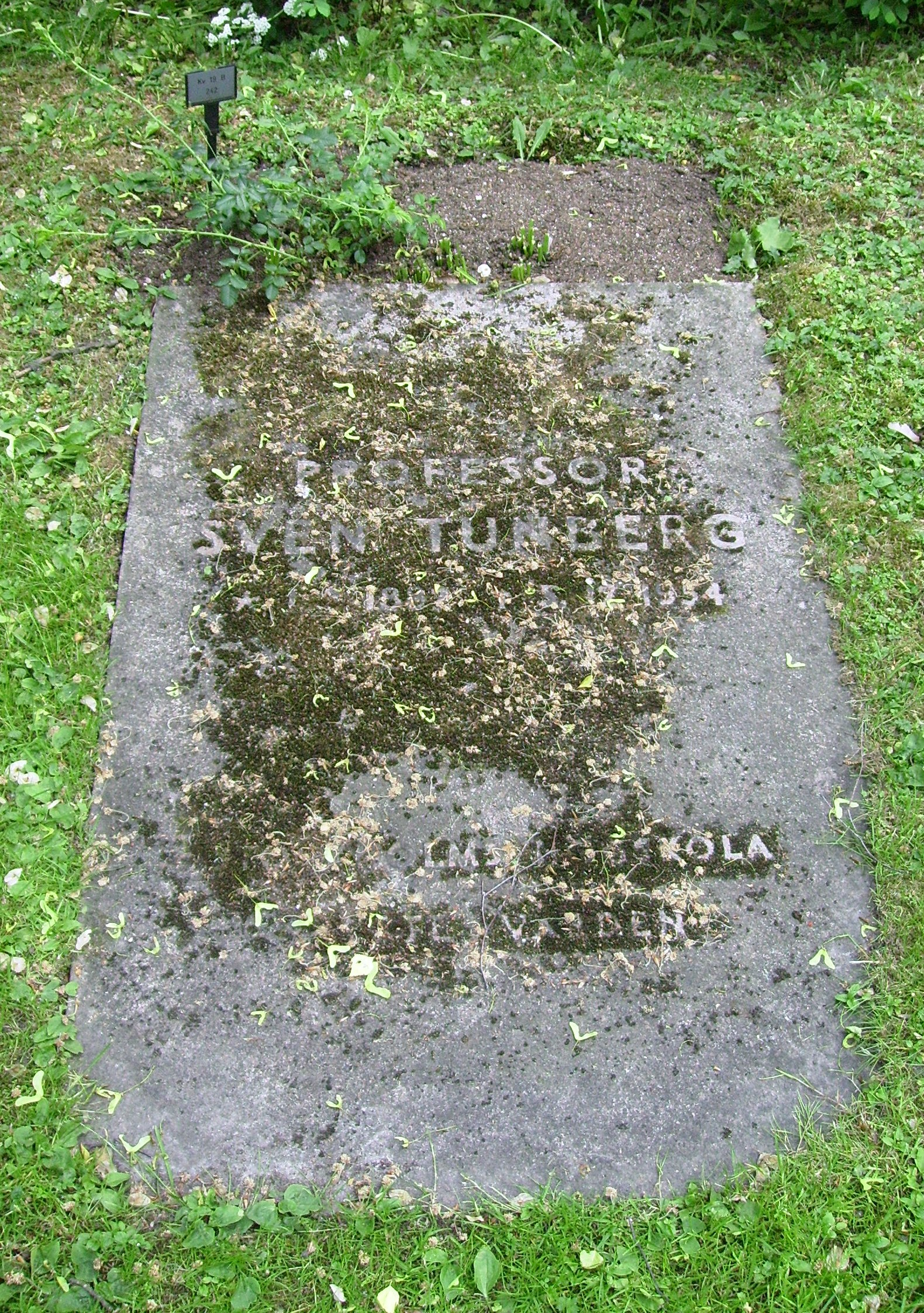 Picture of Sven Tunberg's grave at Norra begravningsplatsen in Solna